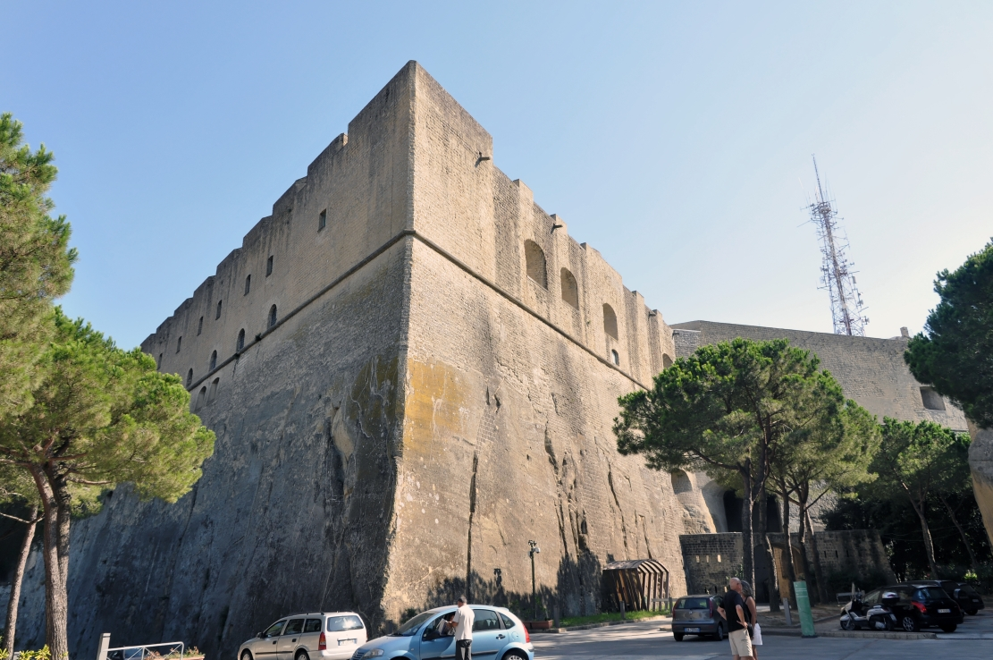 Neapel 2012